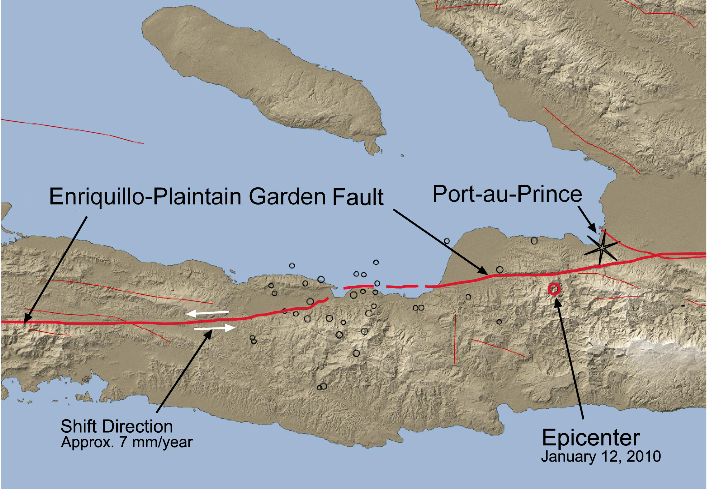 simpified tectonic map, showing the epicenter of the January 12, 2010 quake and the Enriquillo-Plaintain Garden Fault. Note the epicenter shown here is to the east of the coordinates given by USGS (18.457°N, 72.533°W), this image is probably in error.